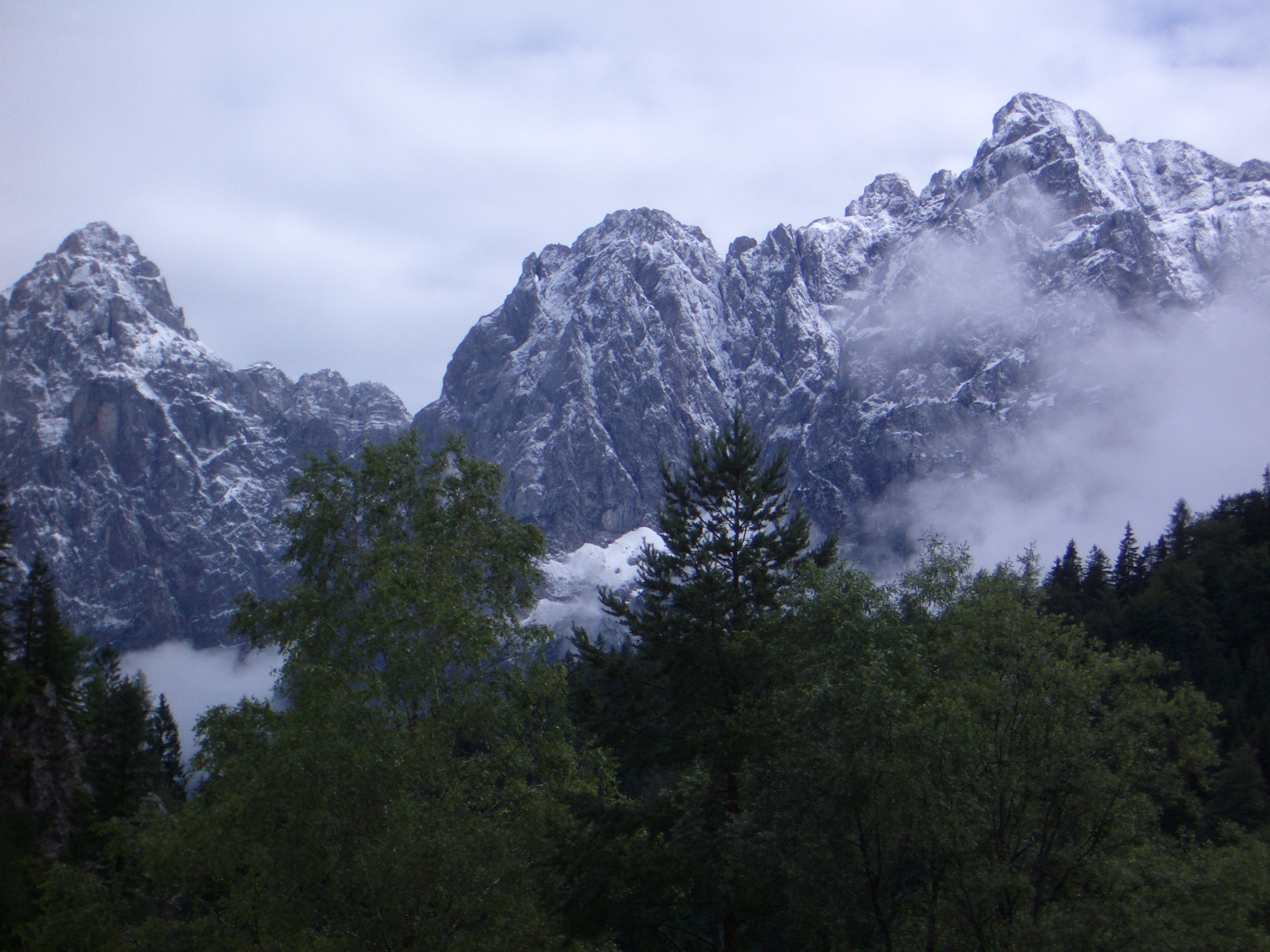 Slovenian wide angle shots uploaded in bulk. All taken near Kranjska Gora, Julian Alps in Summer 2004.